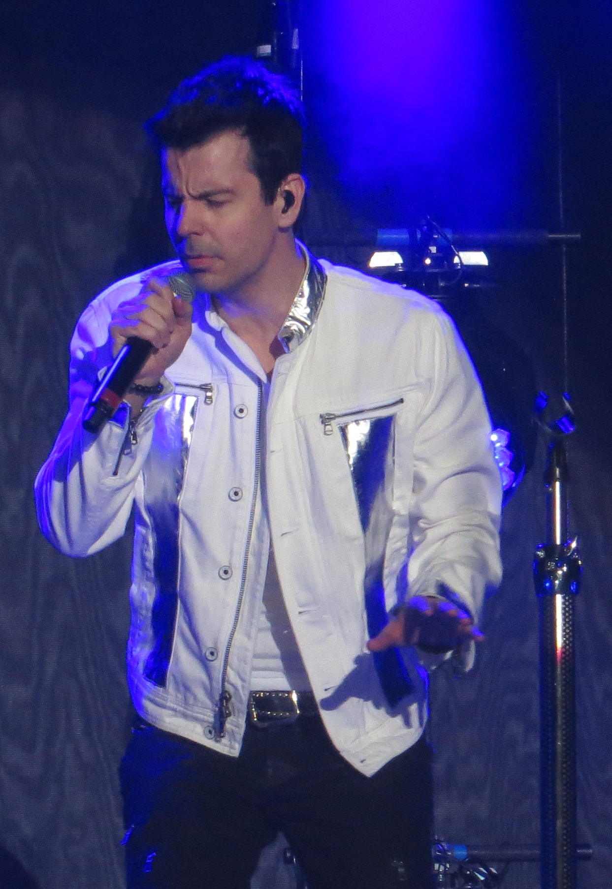 An Intimate Evening with New Kids On The Block – European Tour 2014